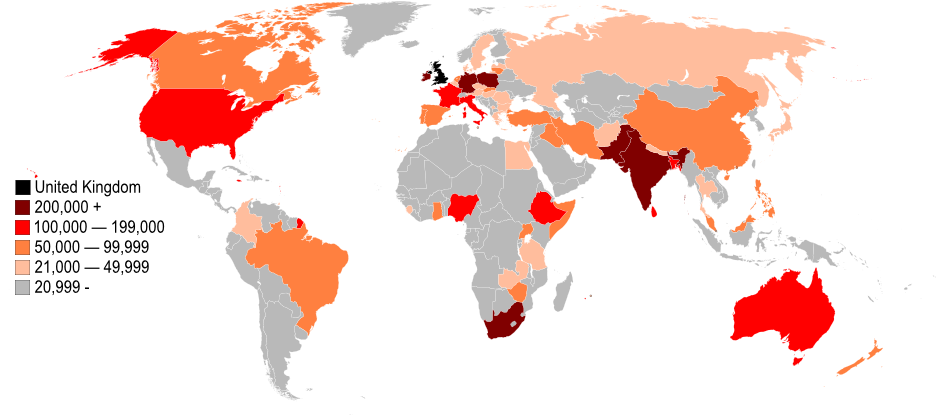 A map of 60 world countries coloured by the estimated number of people born in that country living in the United Kingdom during April 2007 and March 2008.